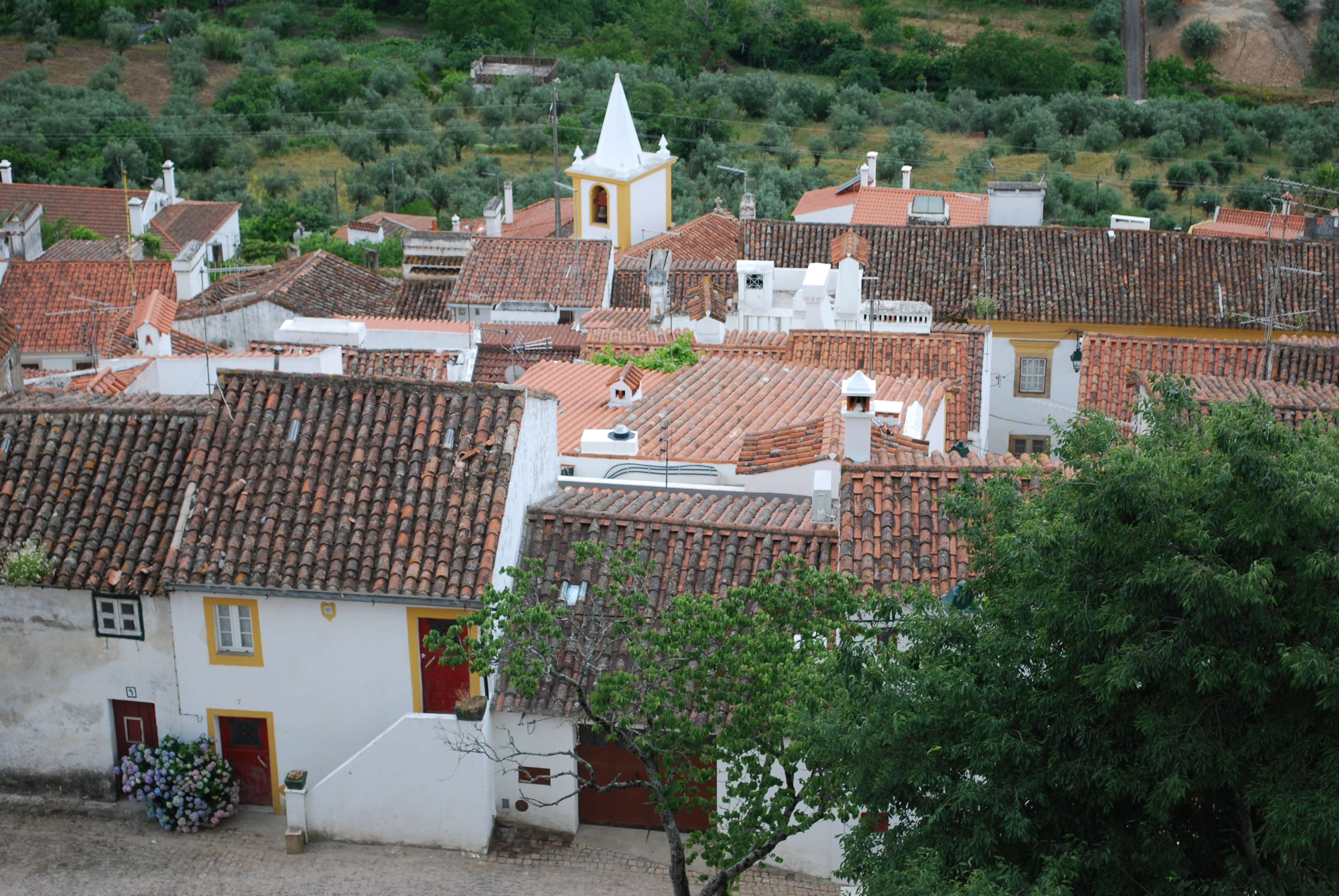 This file was uploaded for Wiki Loves Monuments in Portugal with the unique identifier 71608.